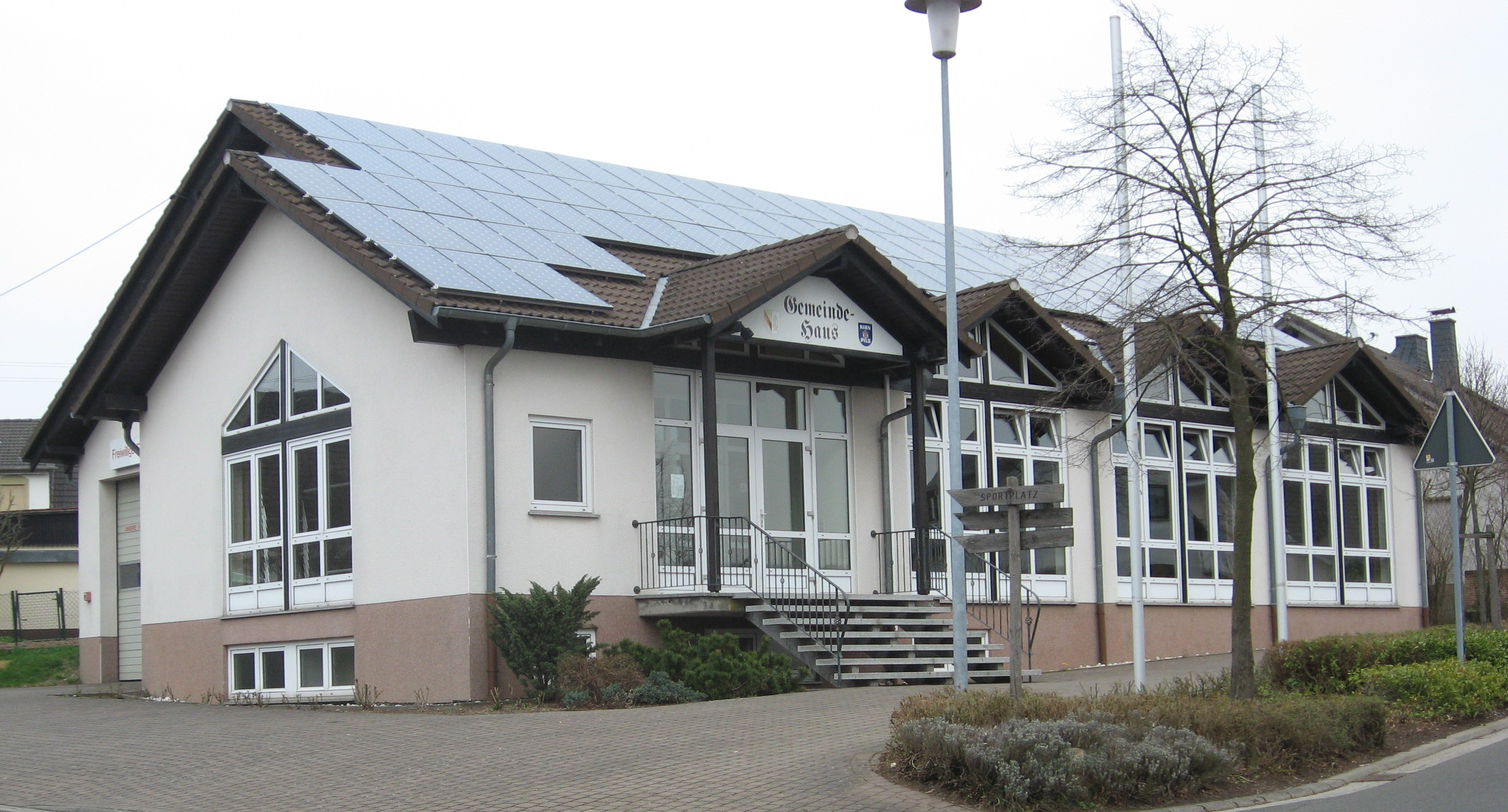 Gemeindehaus in Weitersborn, Hunsrück landscape, Germany.